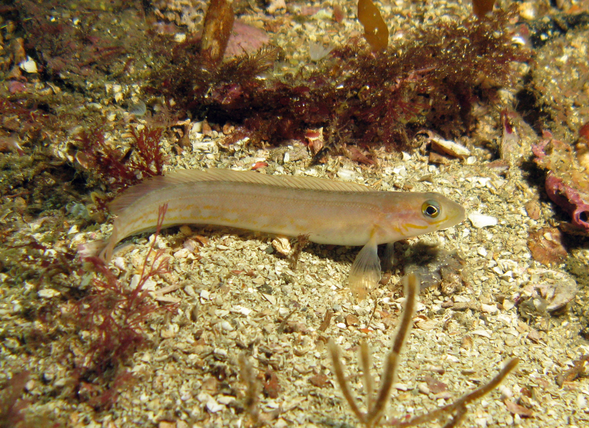 Northern Ronquil (Ronquilus jordani), Location Barkley Sound, British Columbia, Canada